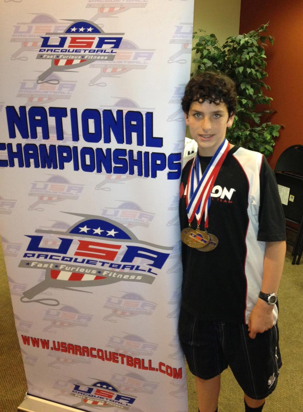 The medals were at USAR National Singles championships in Fullerton 2013